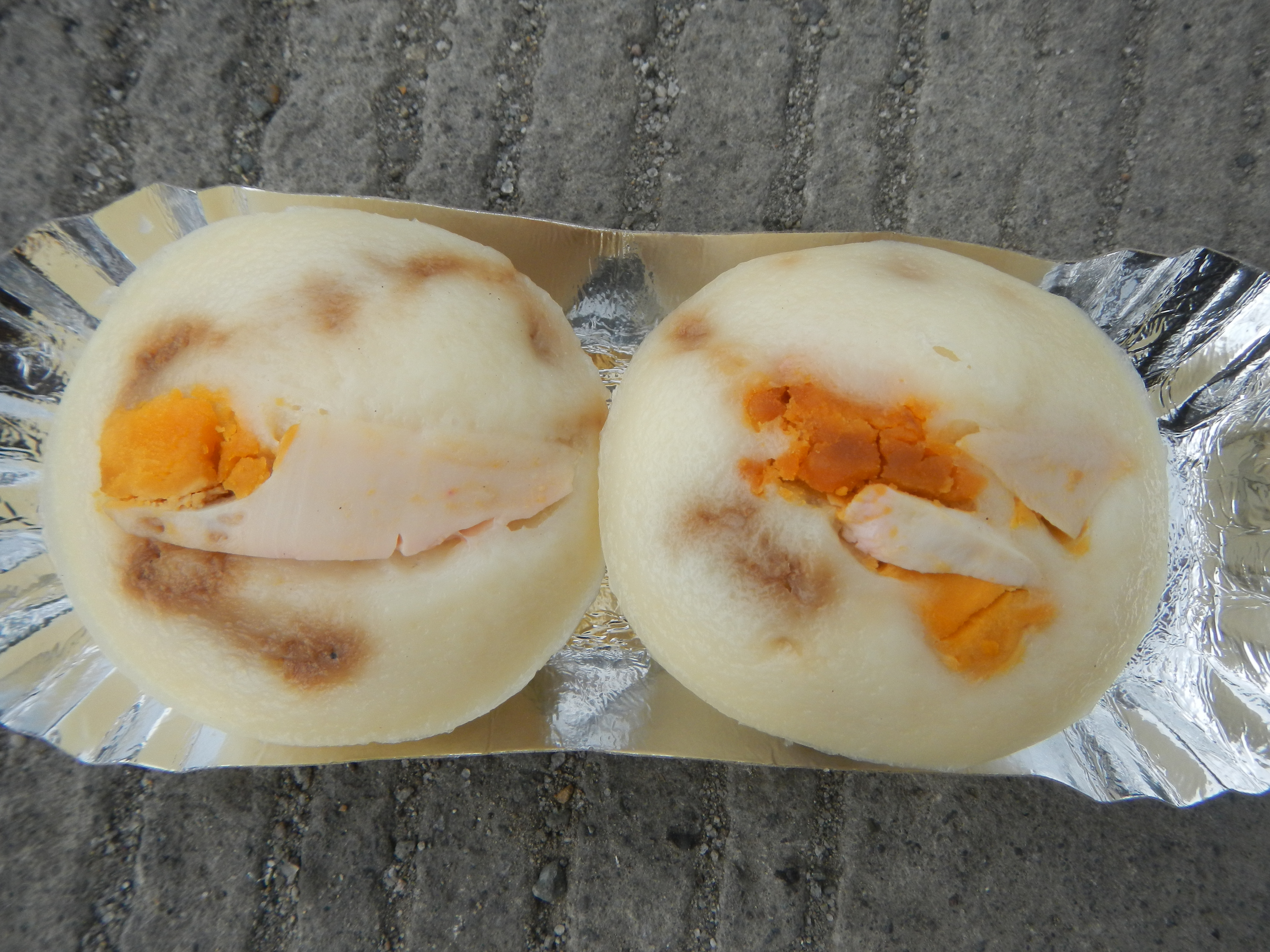 Cuisine of the Philippines, special foods in Pat Special Palabok Foodhaus Barangay Ilang-Ilang, Guiguinto, Bulacan, Bulacan province along MacArthur Highway or Manila North Road (Note: Judge Florentino Floro, the owner, to repeat, Donor Florentino Floro of all these photos hereby donate gratuitously, freely and unconditionally all these photos to and for Wikimedia Commons, exclusively, for public use of the public domain, and again without any condition whatsoever).